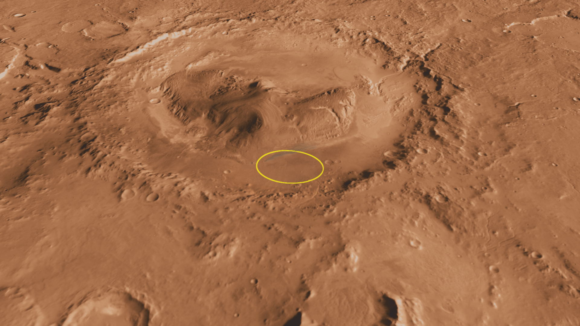 This oblique, southward-looking view of Gale crater shows the landing site and the mound of layered rocks that NASA's Mars Science Laboratory will investigate. The landing site is in the smooth area in front of the mound (marked by a yellow ellipse, which is 12.4 miles[20 kilometers] by 15.5 miles [25 kilometers]). Gale crater is 96 miles (154 kilometers) in diameter and holds a layered mountain rising about 3 miles (5 kilometers) above the crater floor.